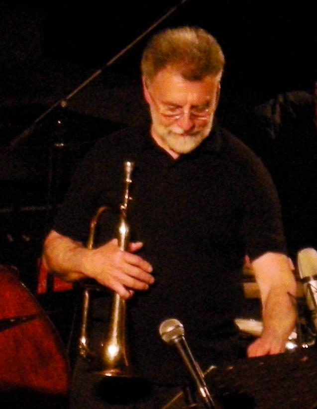 Marvin Stamm (Cropped version)